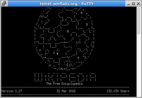 Screenshot of the output of . The ASCII art logo was apparently made by User:Dispenser for their English Wikipedia user page and is presumably CC-BY-SA.